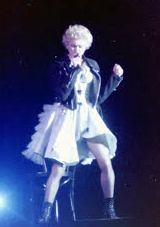 Wembley Stadium Londen Engeland juli '87